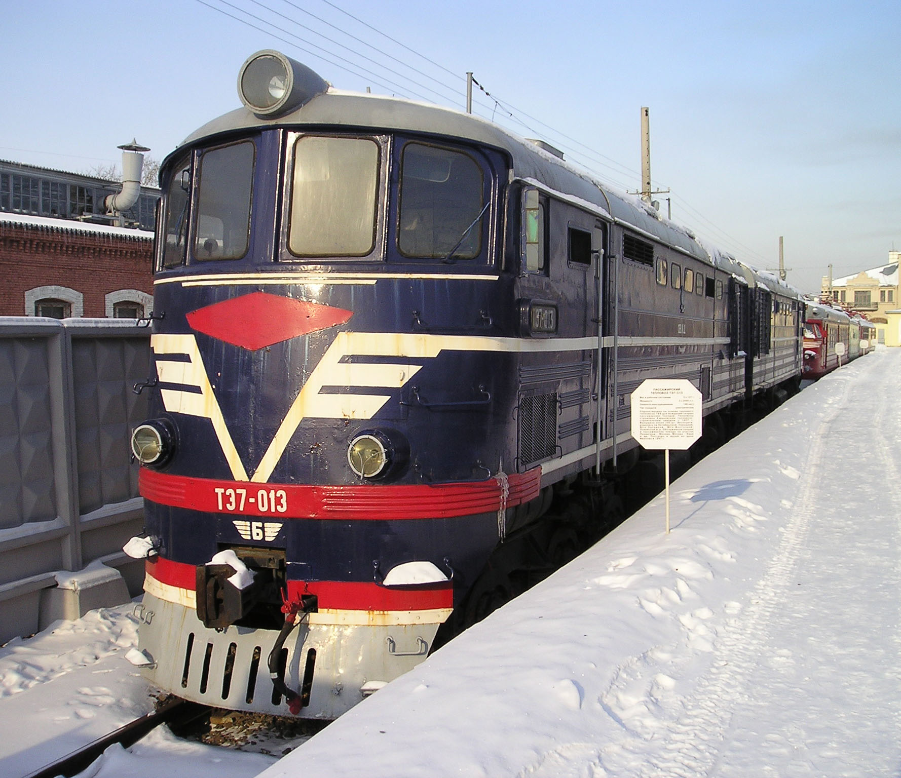 Diesel locomotive TE7-013 in Railway Museum in Saint-Petersburg, Russia